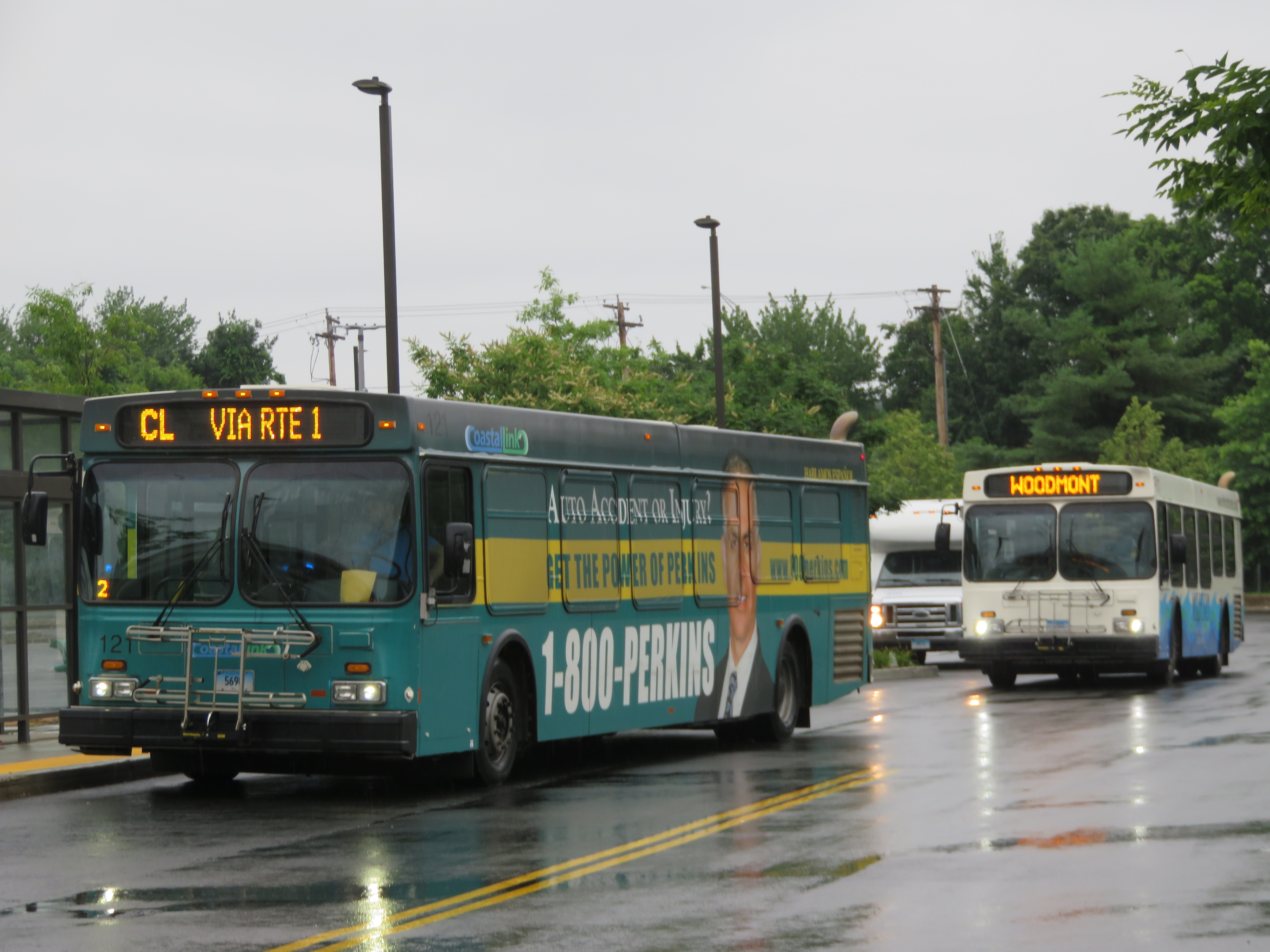 Milford Transit District buses at the CT Post Mall in Milford.